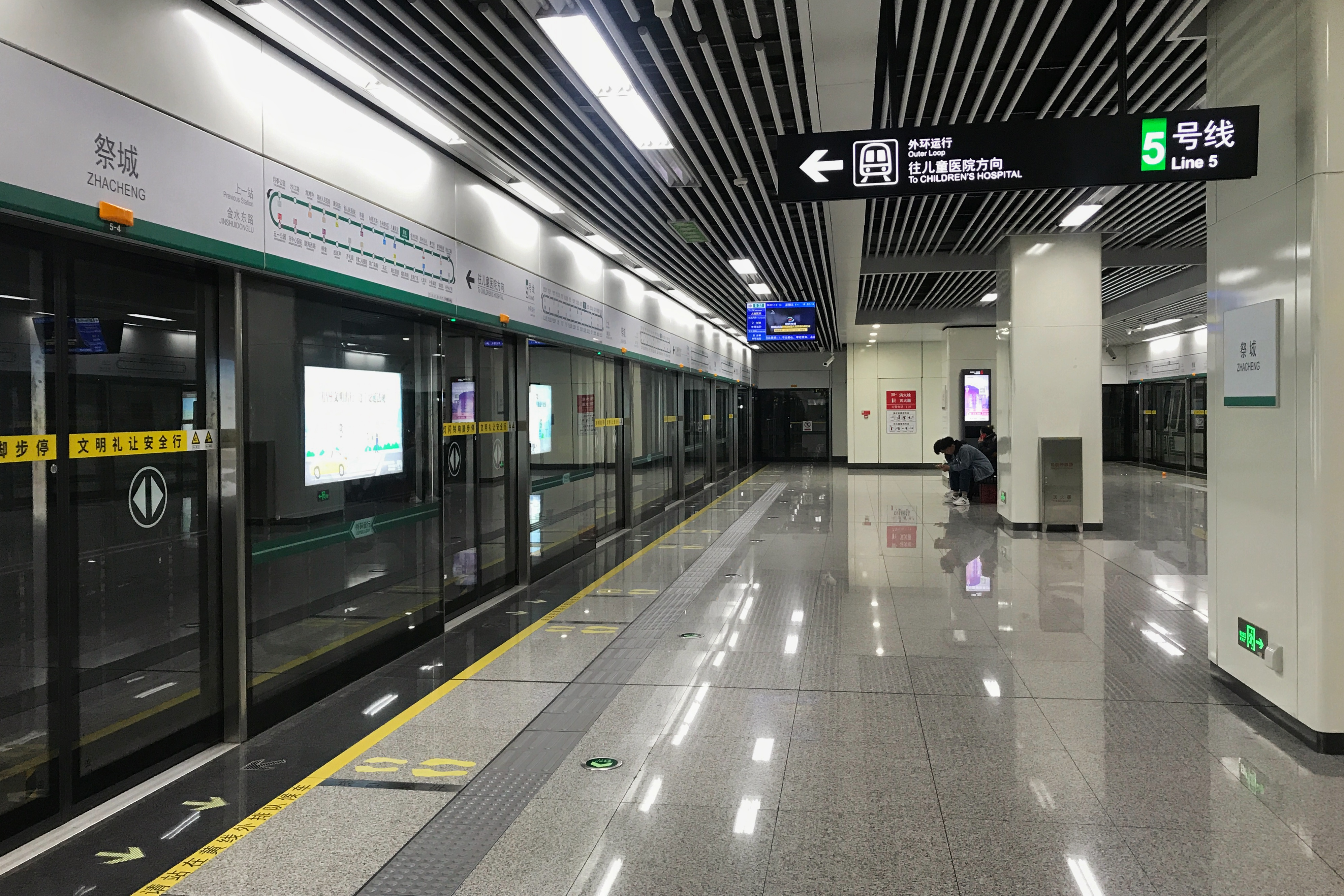 Platform of Zhacheng Station, Zhengzhou Metro